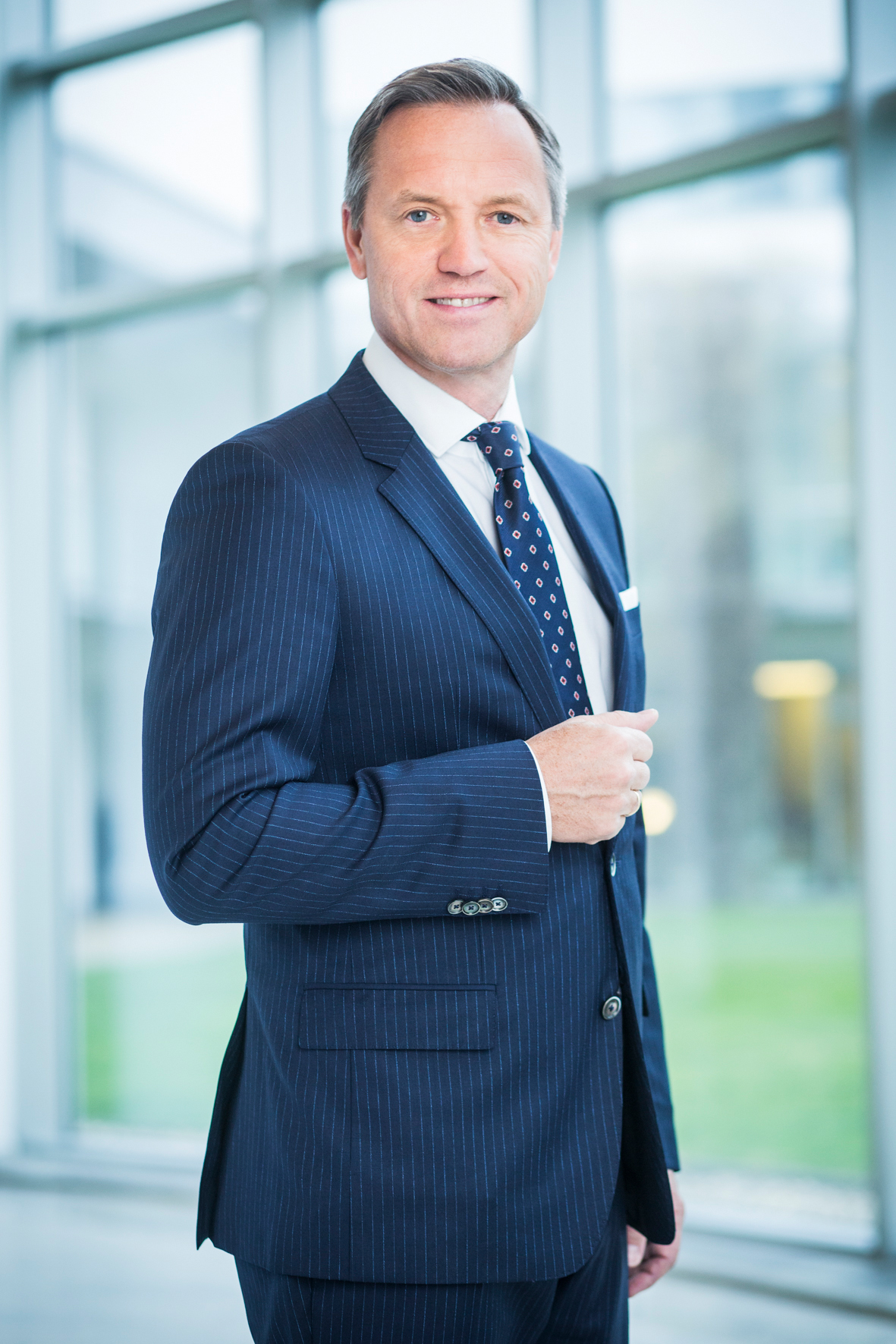 Photo of Prof. Dr. Robin Rumler. CEO of Pfizer Austria